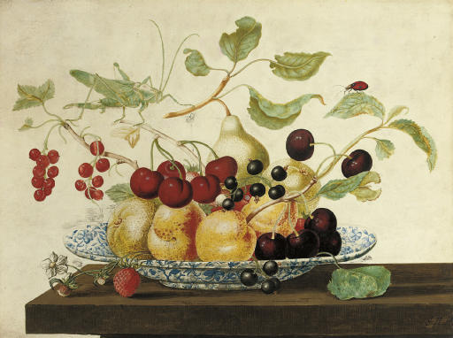 Still life with a grasshoper and a ladybug perched on branches arranged in a Delft bowl with cherries, pears, peaches, blackcurrants, redcurrants and strawberries.